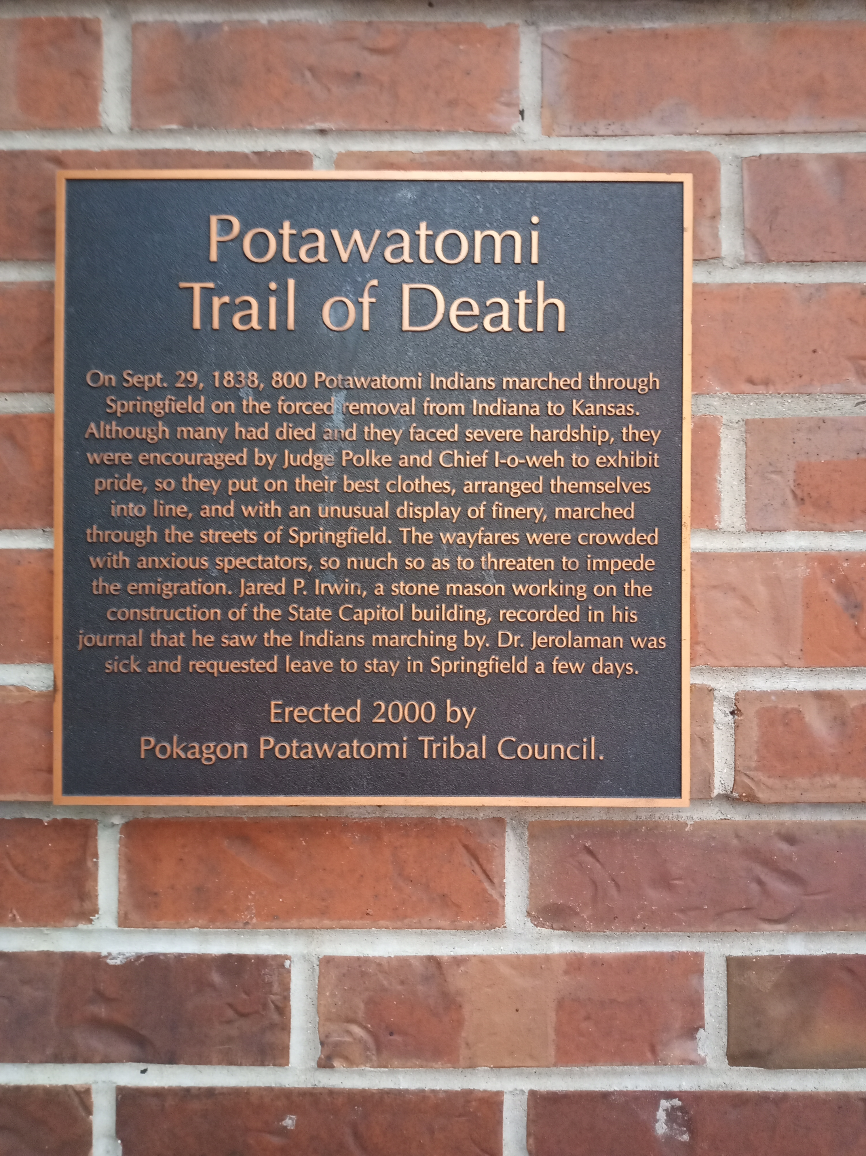 Plaque placed by the Pokagon Band of Potawatomi near Old State Capitol in Springfield, Illinois in memory of the genocide known as the Trail of Death and its victims.